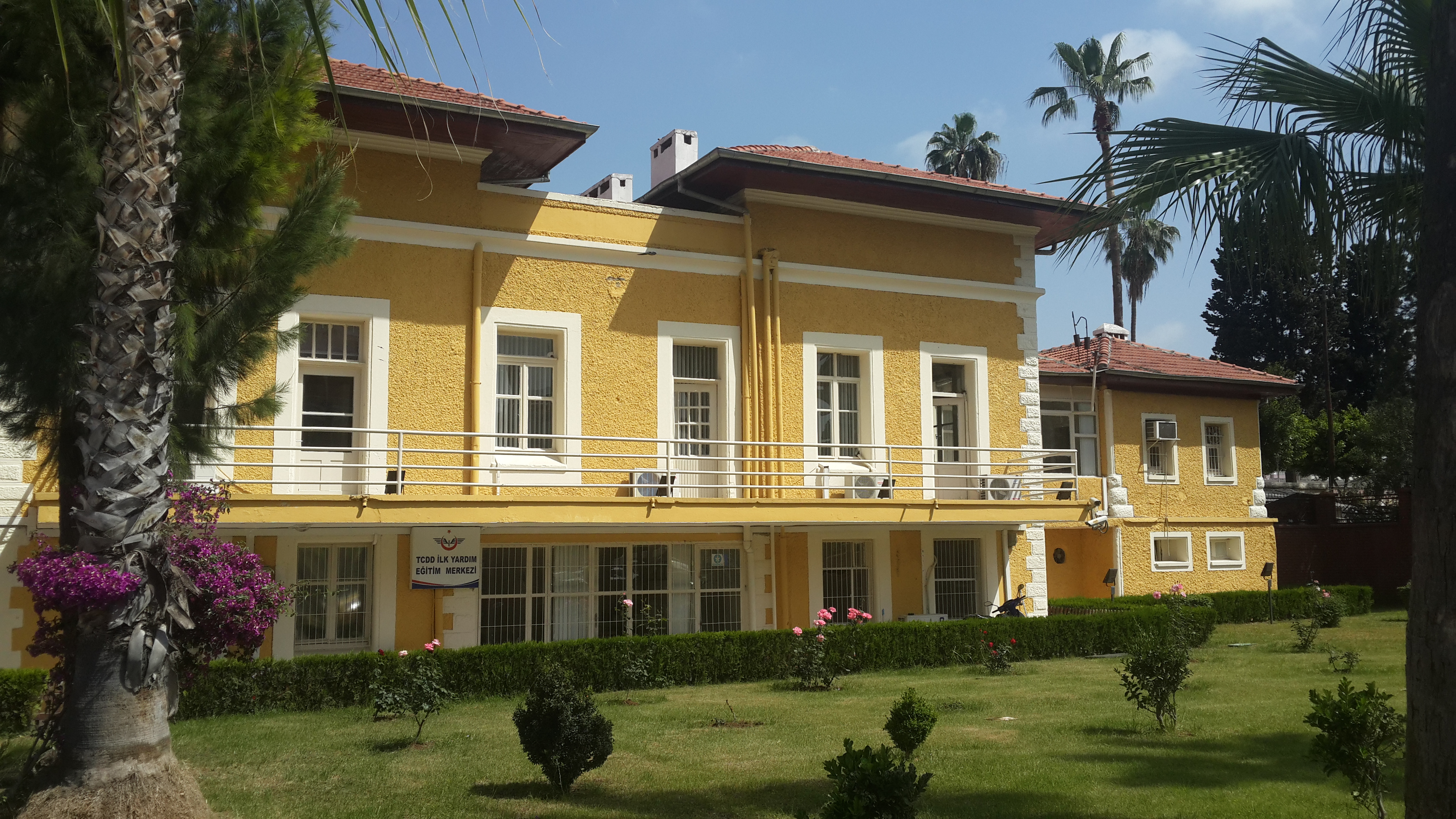 Adana Central railway station - Service Building